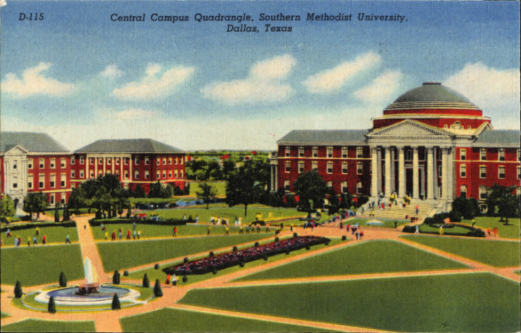 Central Campus Quadrangle, Southern Methodist University, Dallas, Texas